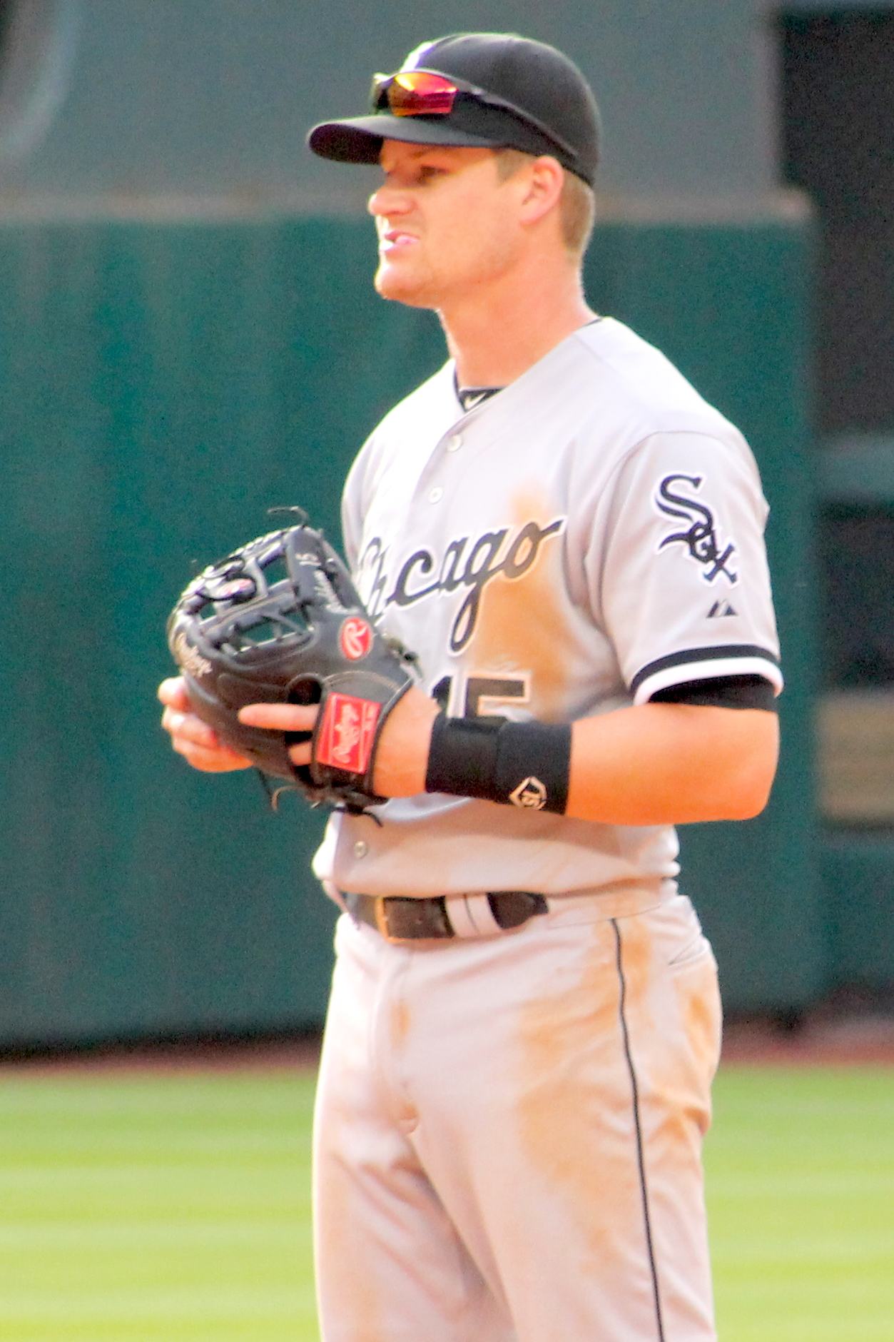 Chicago White Sox player Gordon Beckham during a May 2014 game in Houston.